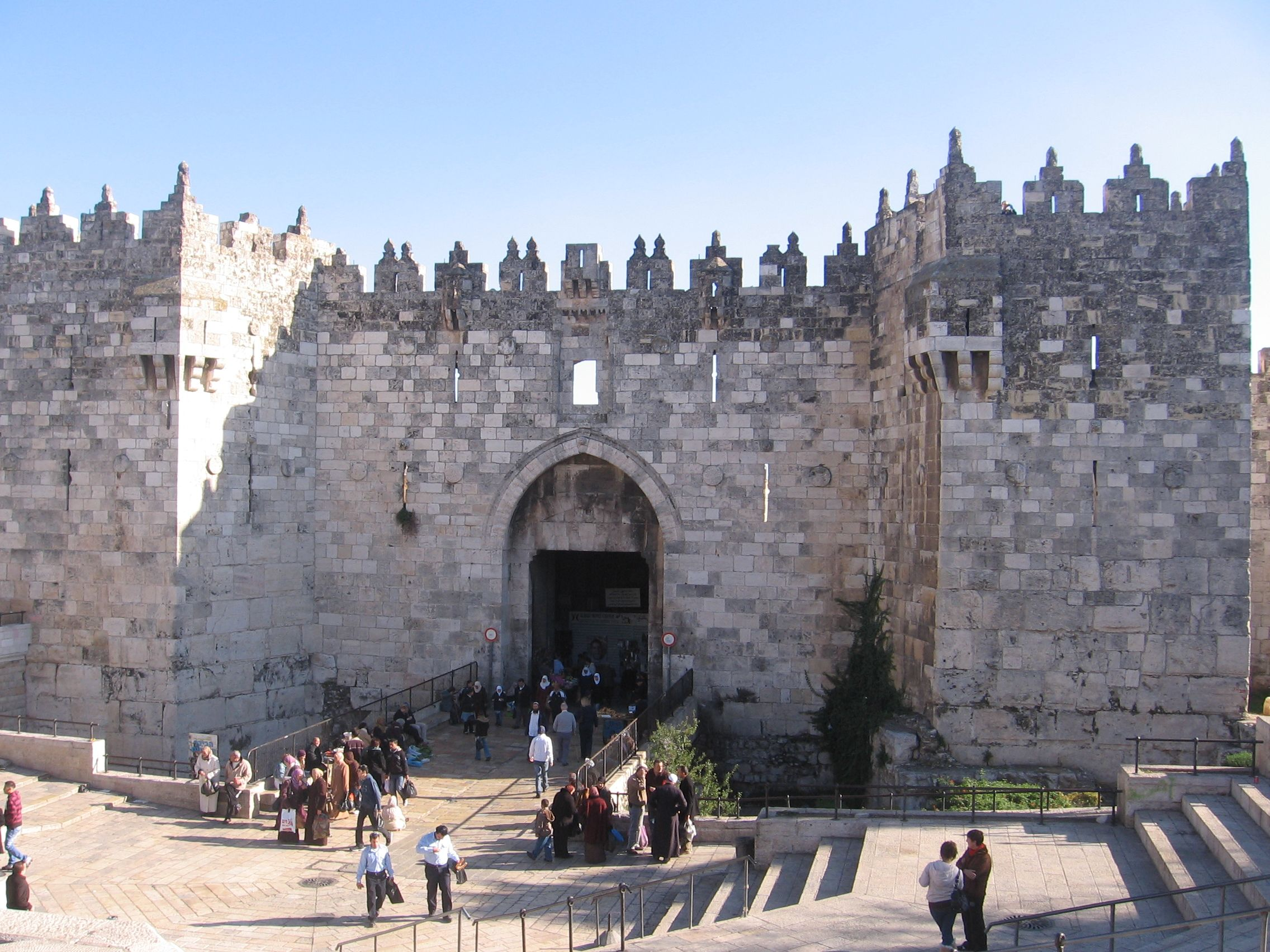 The Damascus Gate in Jerusalem's walls.